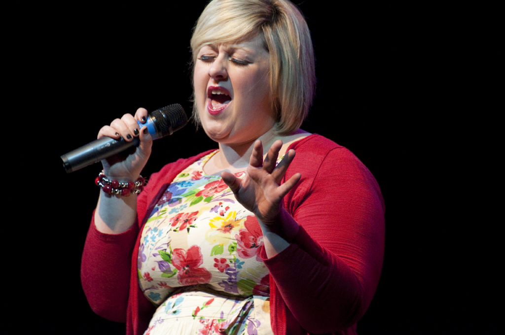 Michelle McManus at Glasgow East Woman of the Year